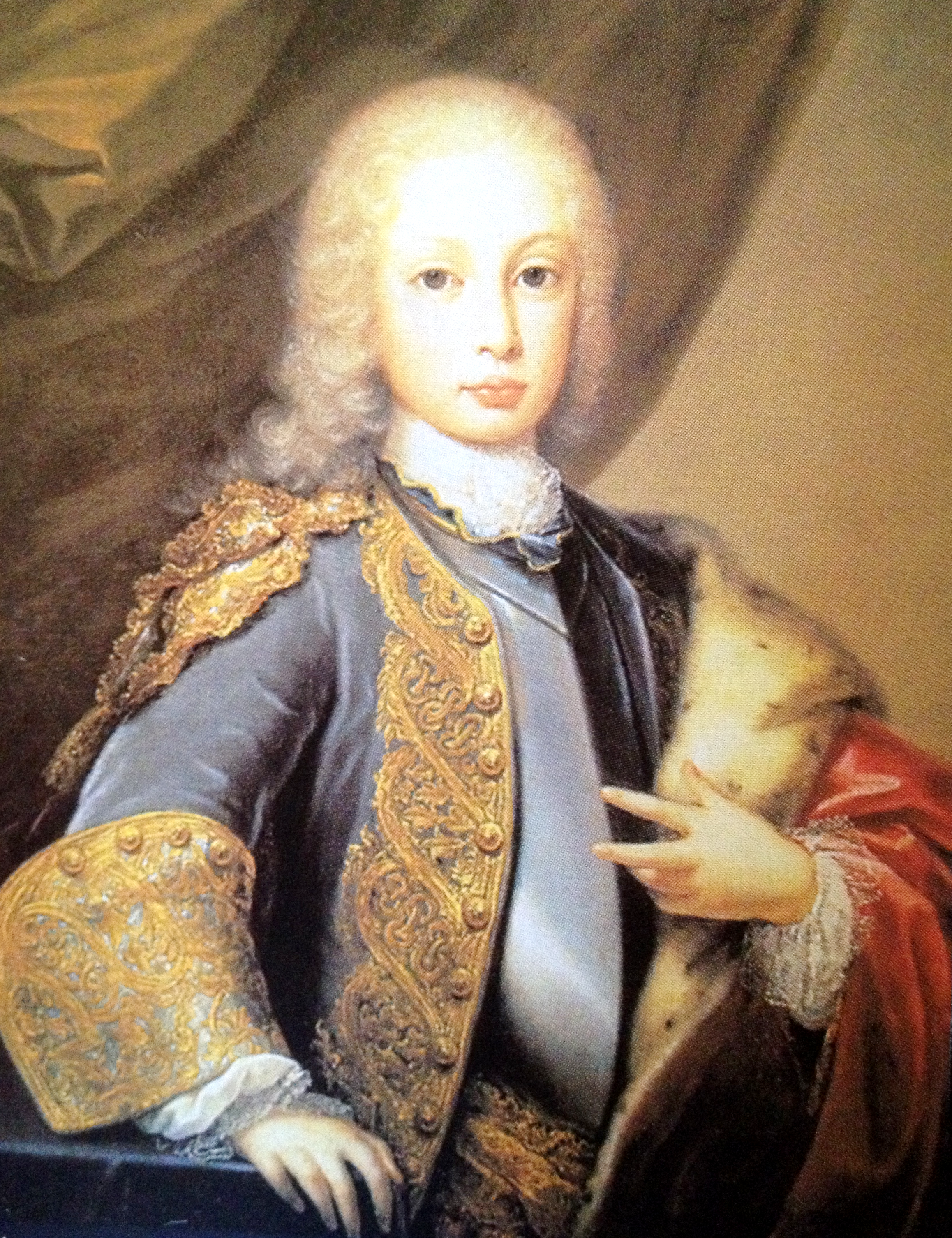 Portrait of Joseph I of Portugal (1714-1777)